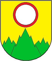 Coat of arms of Muriaux, Canton of Jura, SwitzerlandEsperanto: Blazono de Muriaux, Ĵuraso, Svislando